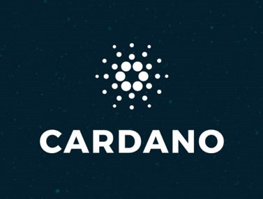 logo of cardano from hub